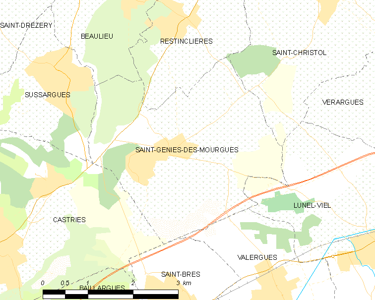 Map commune FR insee code 34256.png - Saint-Geniès-des-Mourgues